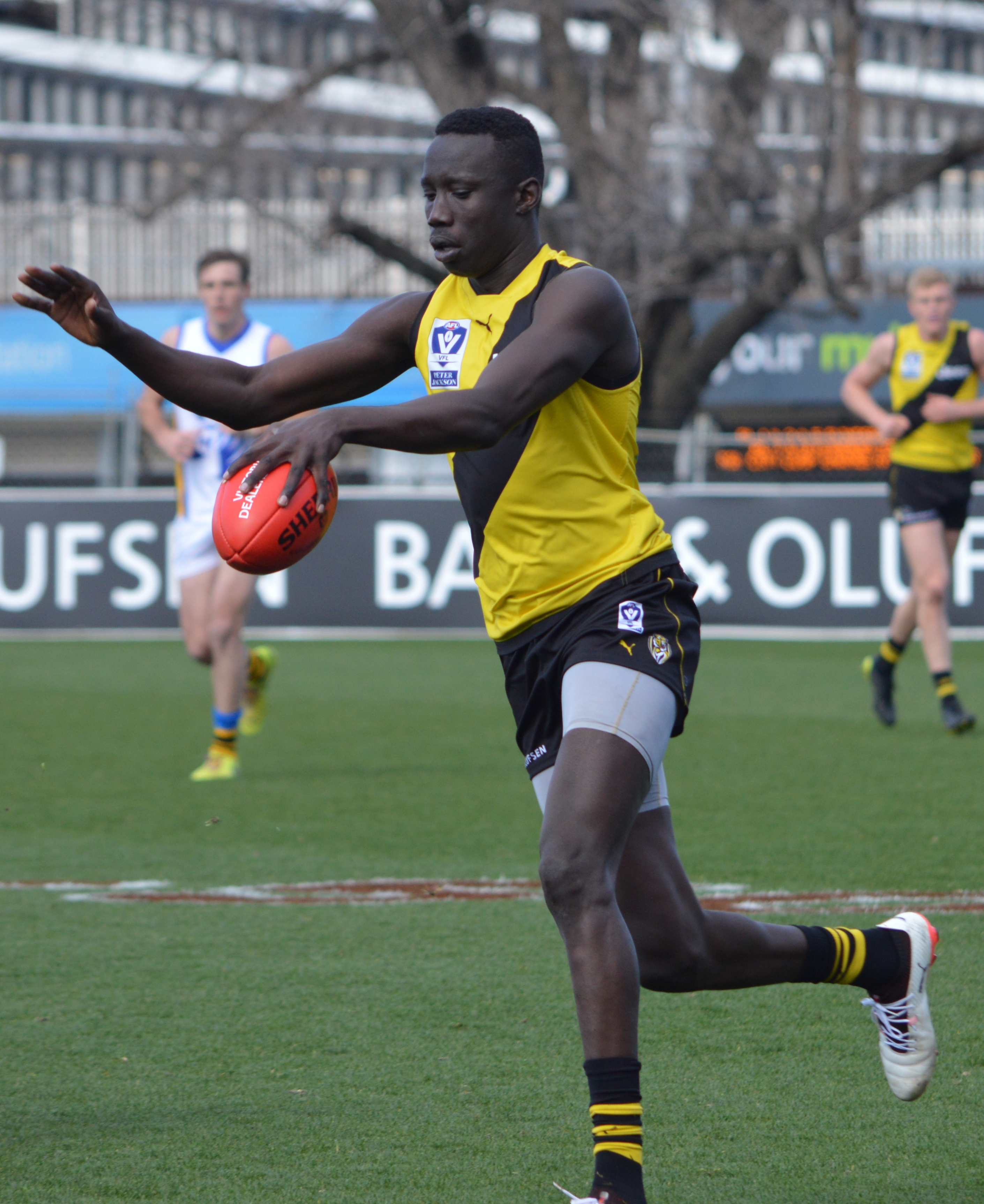 Mabior Chol kicks the ball during a VFL game in August 2017